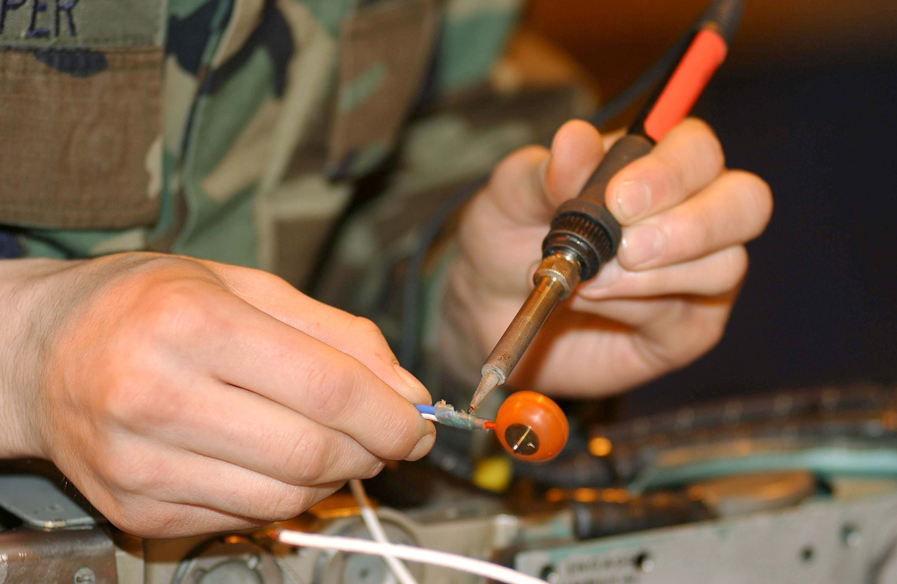 ROYAL AIR FORCE LAKENHEATH, England -- Airman 1st Class Jeremy Clapper desolders the firing contact on a LAU-106 missile launcher here April 7. Airman Clapper is an armament systems apprentice with the 48th Munitions Squadron.